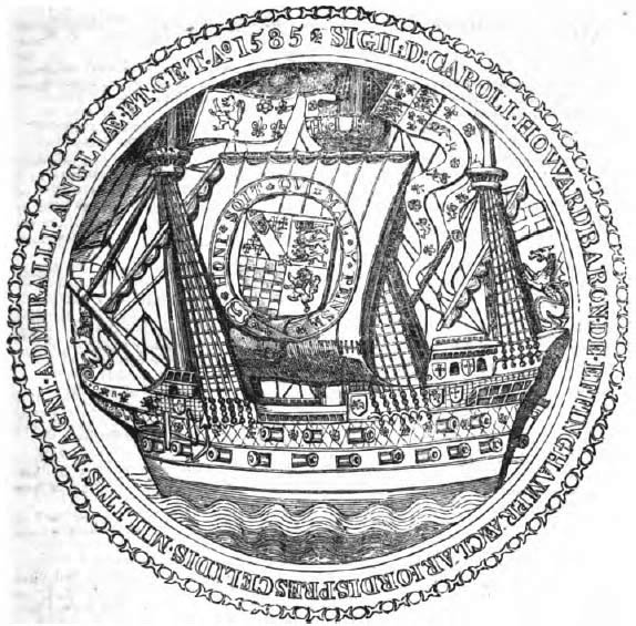 Seal of the Lord High Admiral, Charles Lord Howard of Effingham, 1585